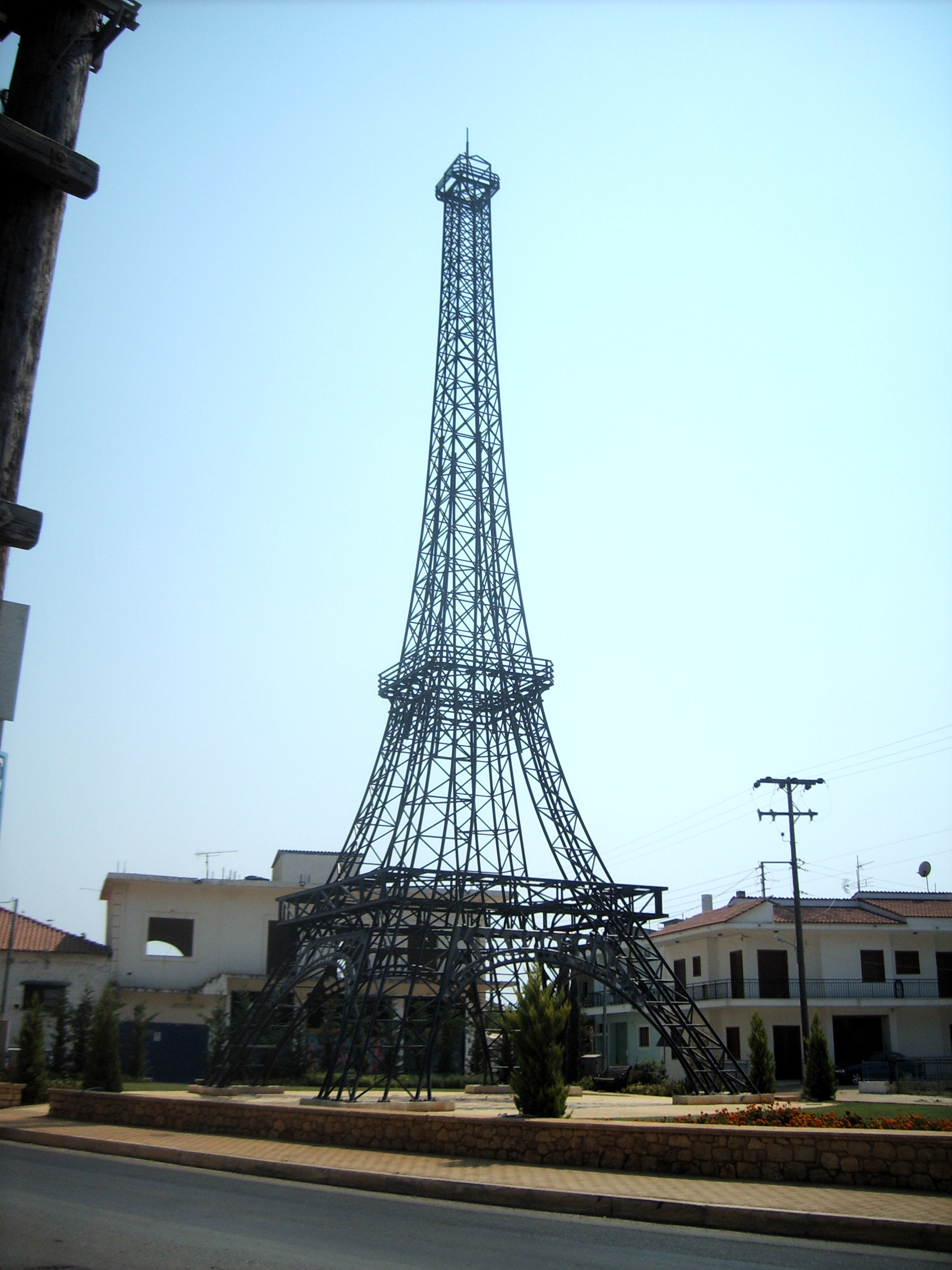 Tower in Filiatra, Messinia, Greece